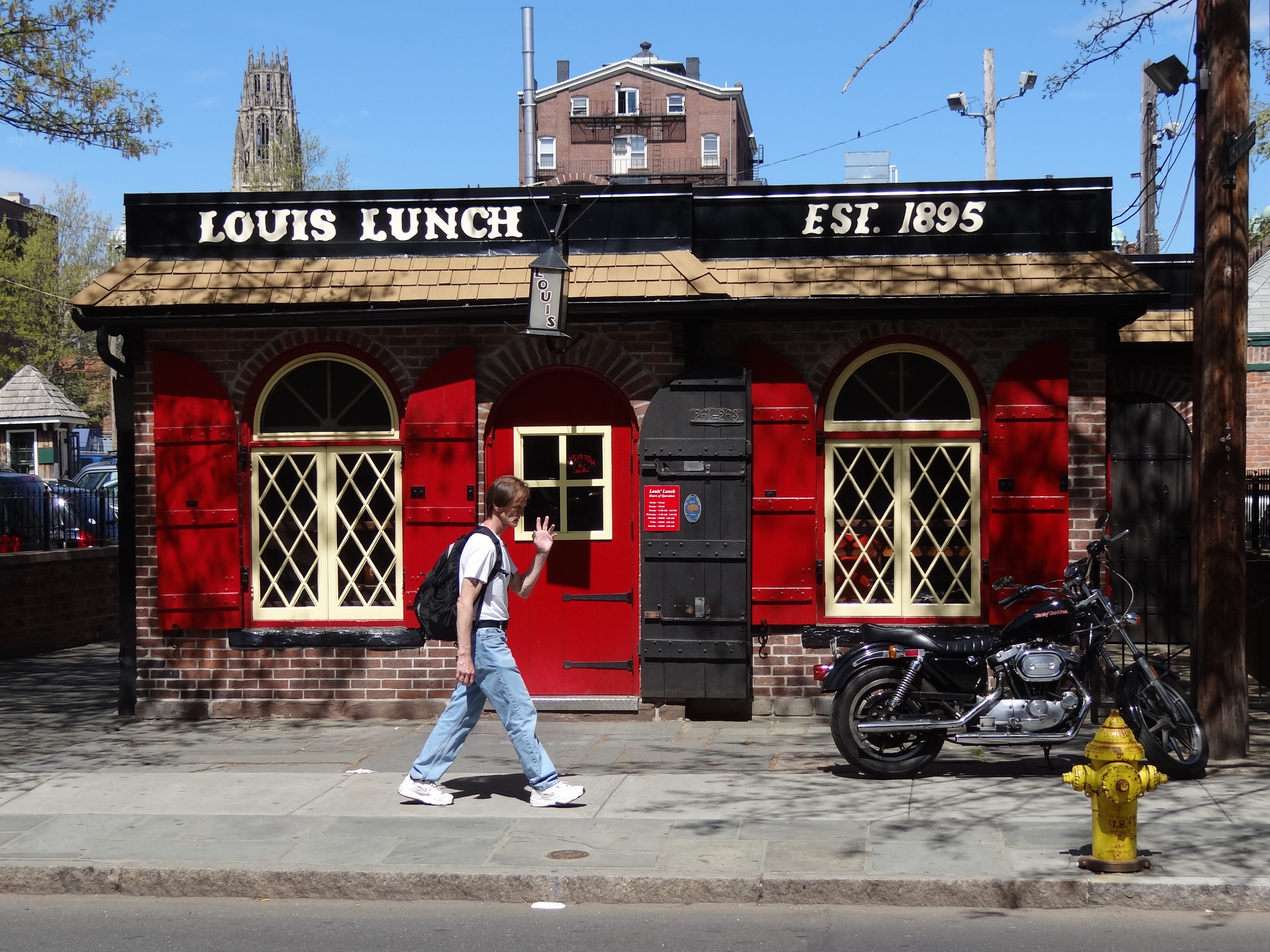 Louis Lunch - Classic Diner - New Haven - CT - USA